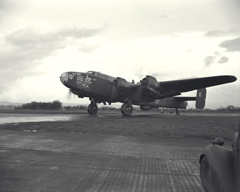 Halifax Bomber